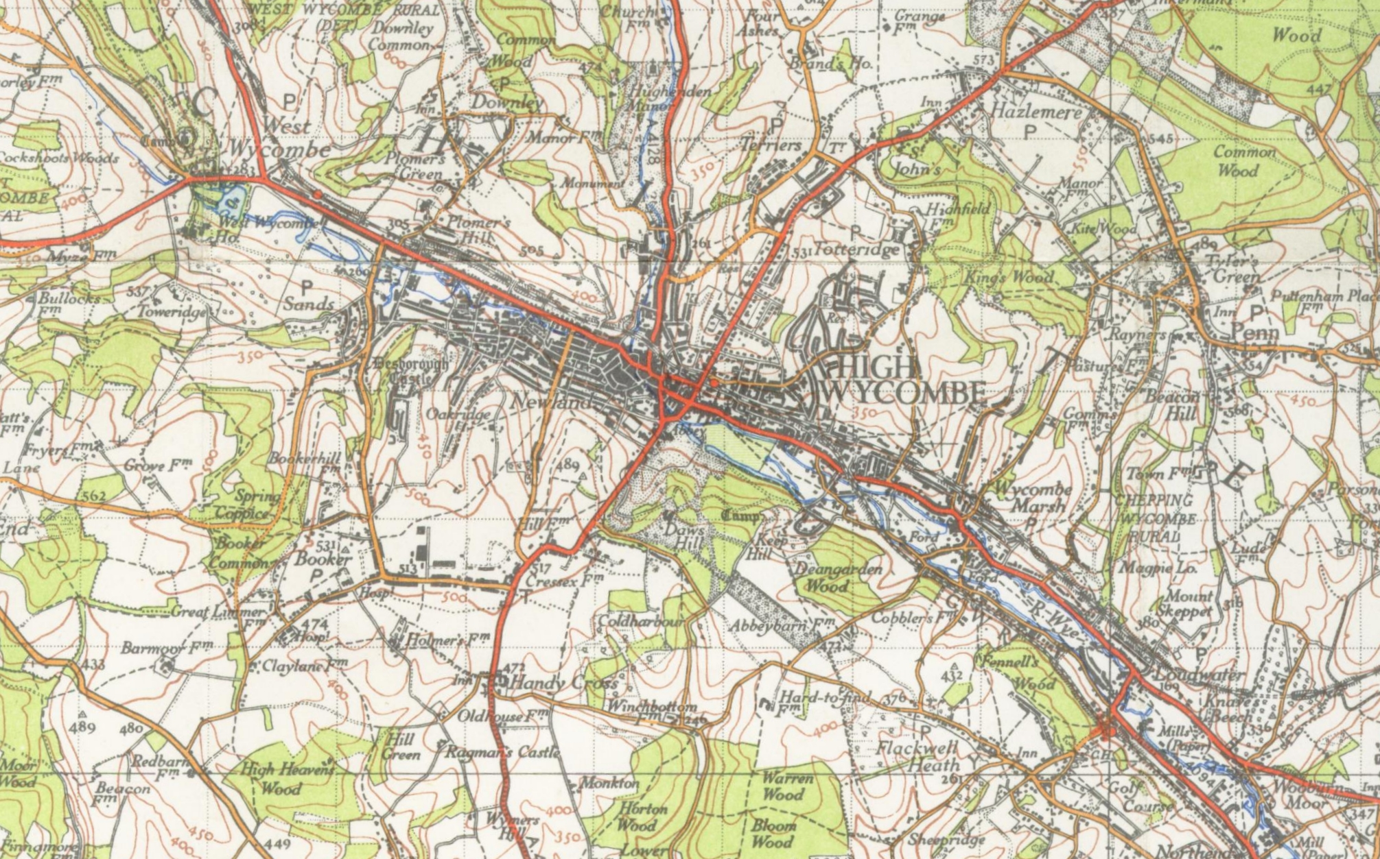 1 inch to the mile OS map of High_Wycombe 1945